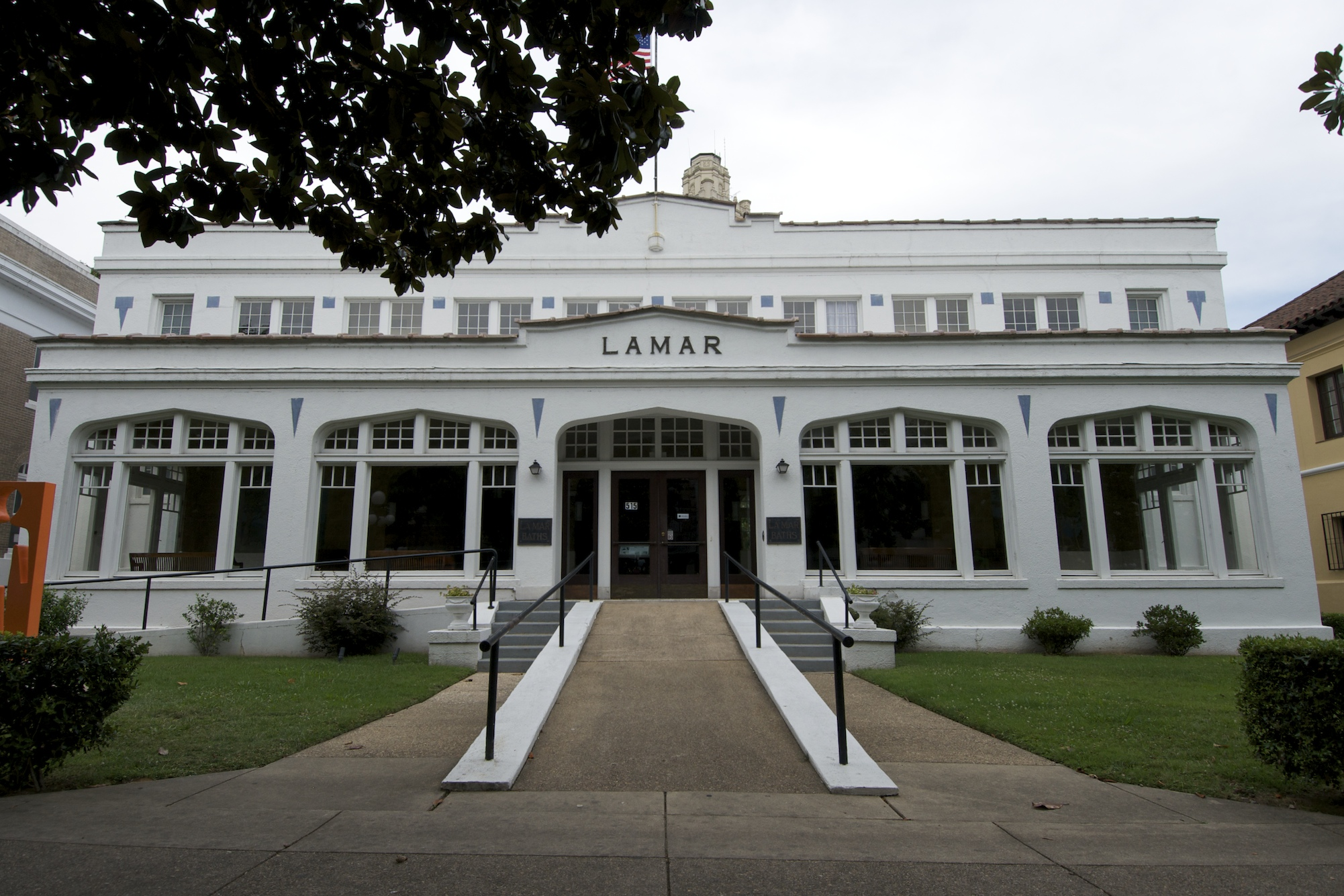 Bathhouse Row, Hot Springs National Park, Garland County, Arkansas